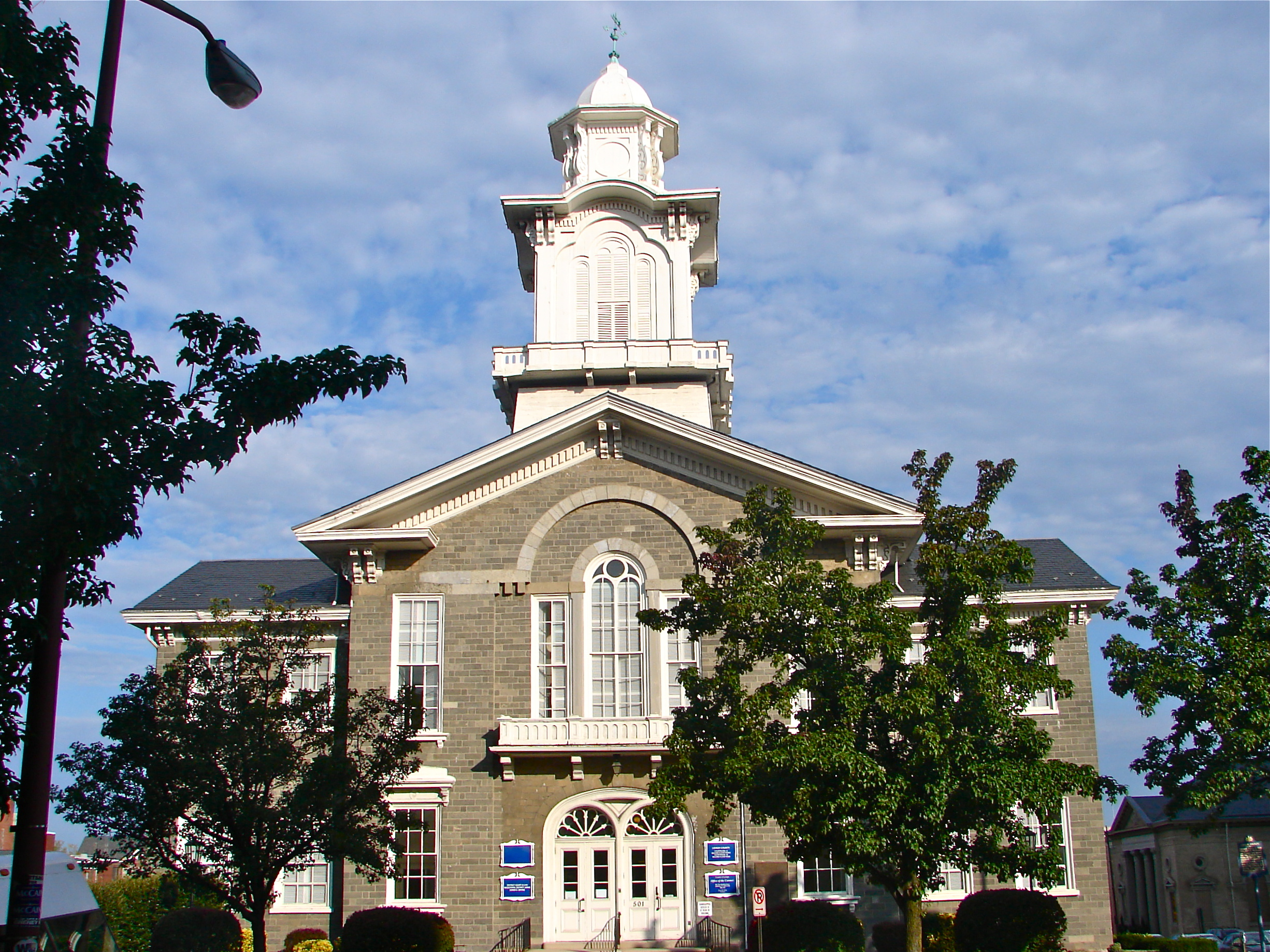 Old Lehigh County Courthouse on the NRHP since September 11, 1981. At 5th and Hamilton Streets, Allentown, Pennsylvania.